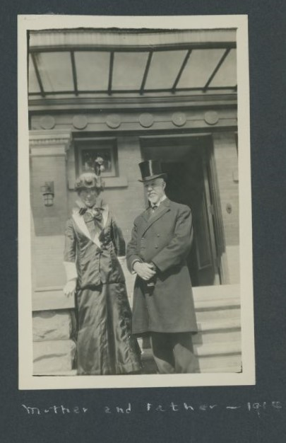 Elizabeth Smith Shortt and husband Adam Shortt standing on the front steps of a home.